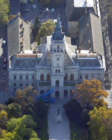 Town Hall. Listed ID 11235 - 1, Kossuth Lajos Square, Hódmezővásárhely, Csongrád Co., Hungary, aerial photography